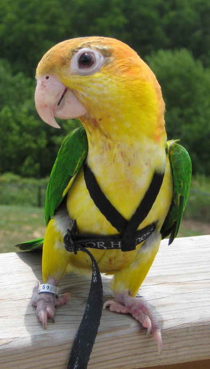 A pet juvenile White-bellied Caique (Pionites leucogaster xanthomeria) in a harness.